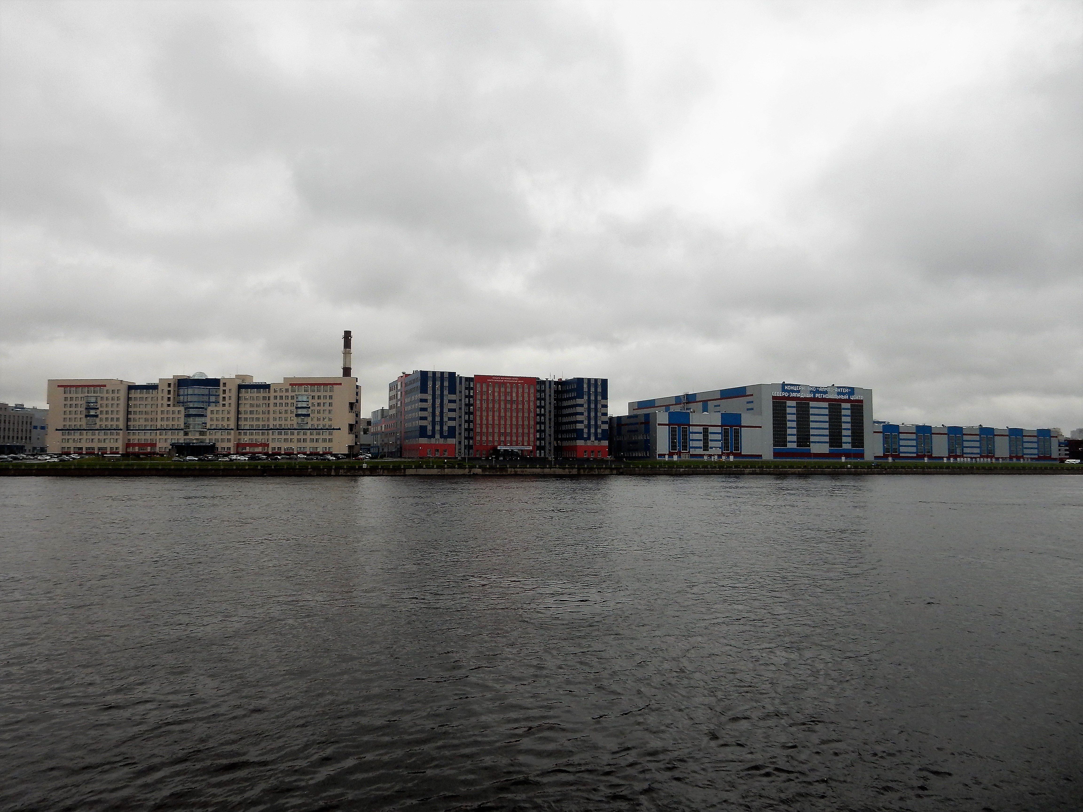 Regional Center Northwest of Almas-Antei in St. Petersburg, Russia